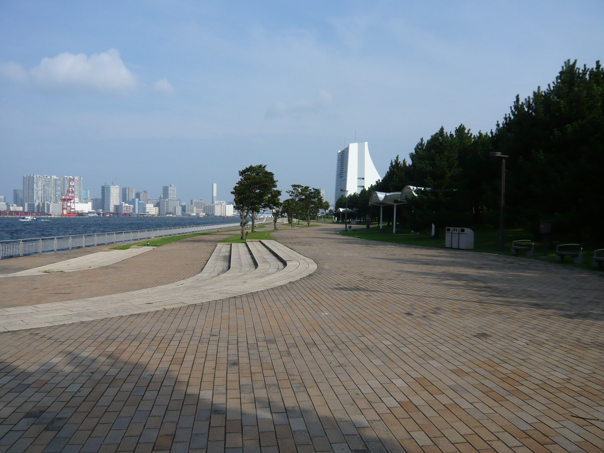 Shiokaze Park(潮風公園) in Shinagawa-ku,Tokyo,Japan.